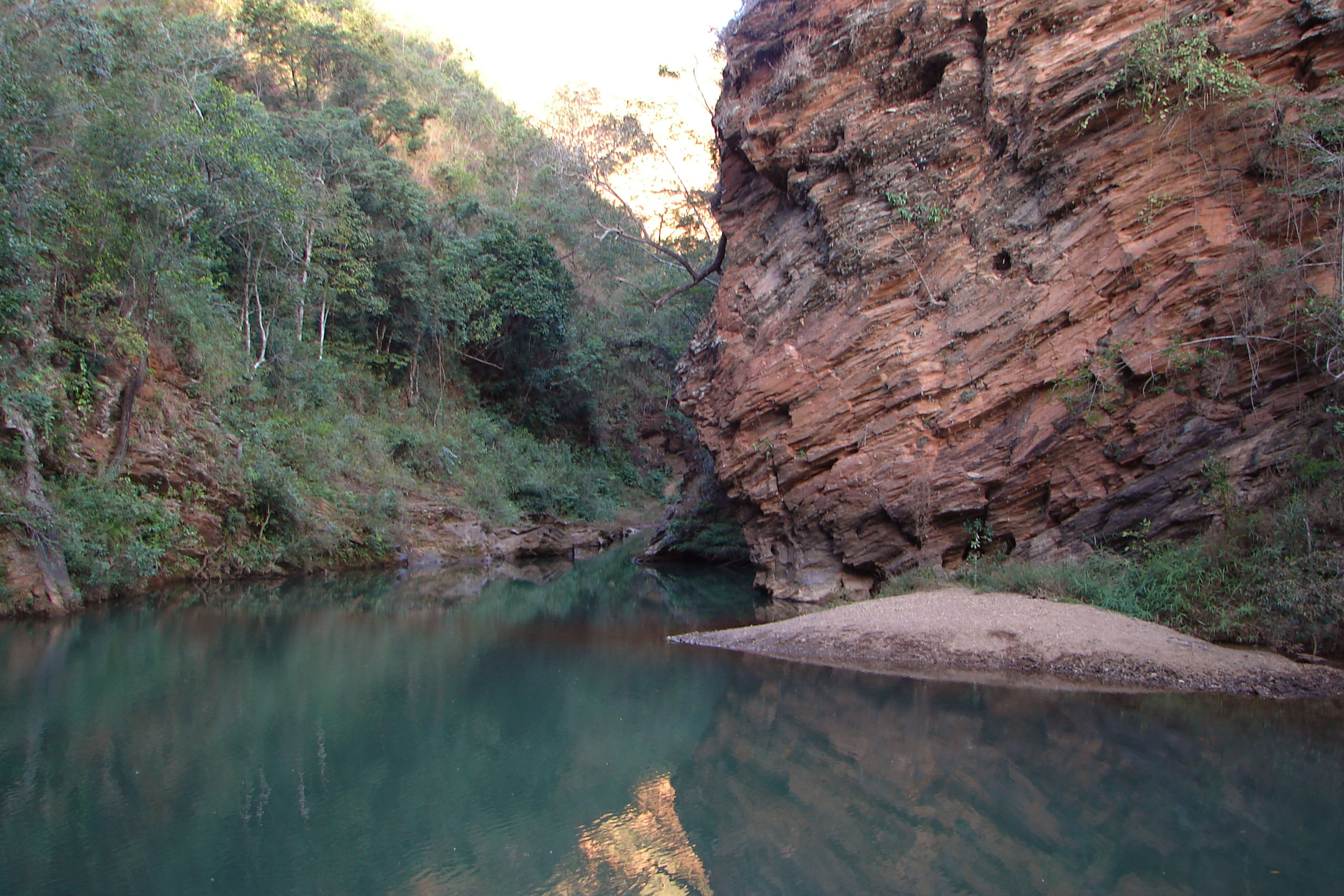 Poço das pedras de raposos